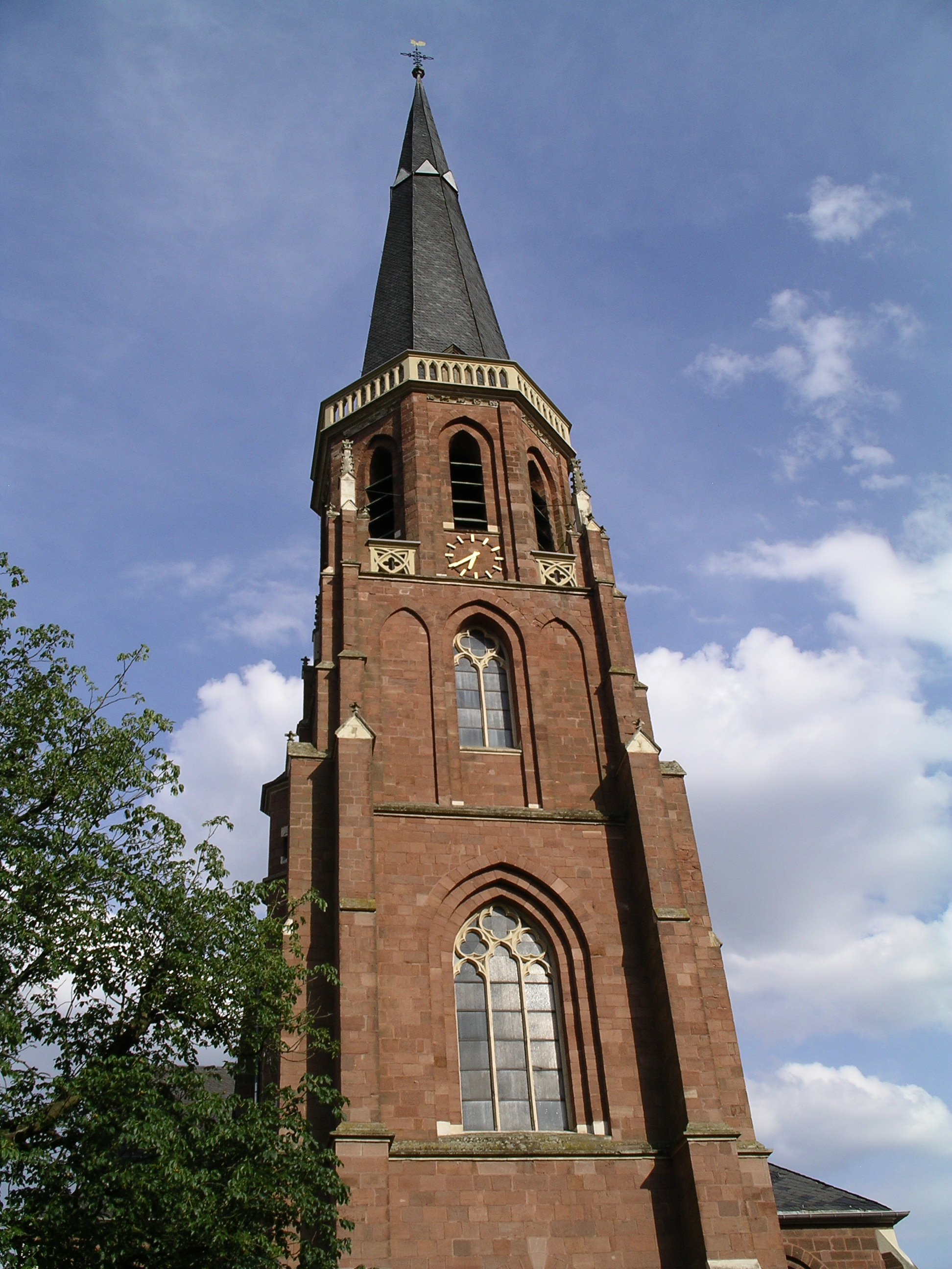 St. Helena, Trier-Euren